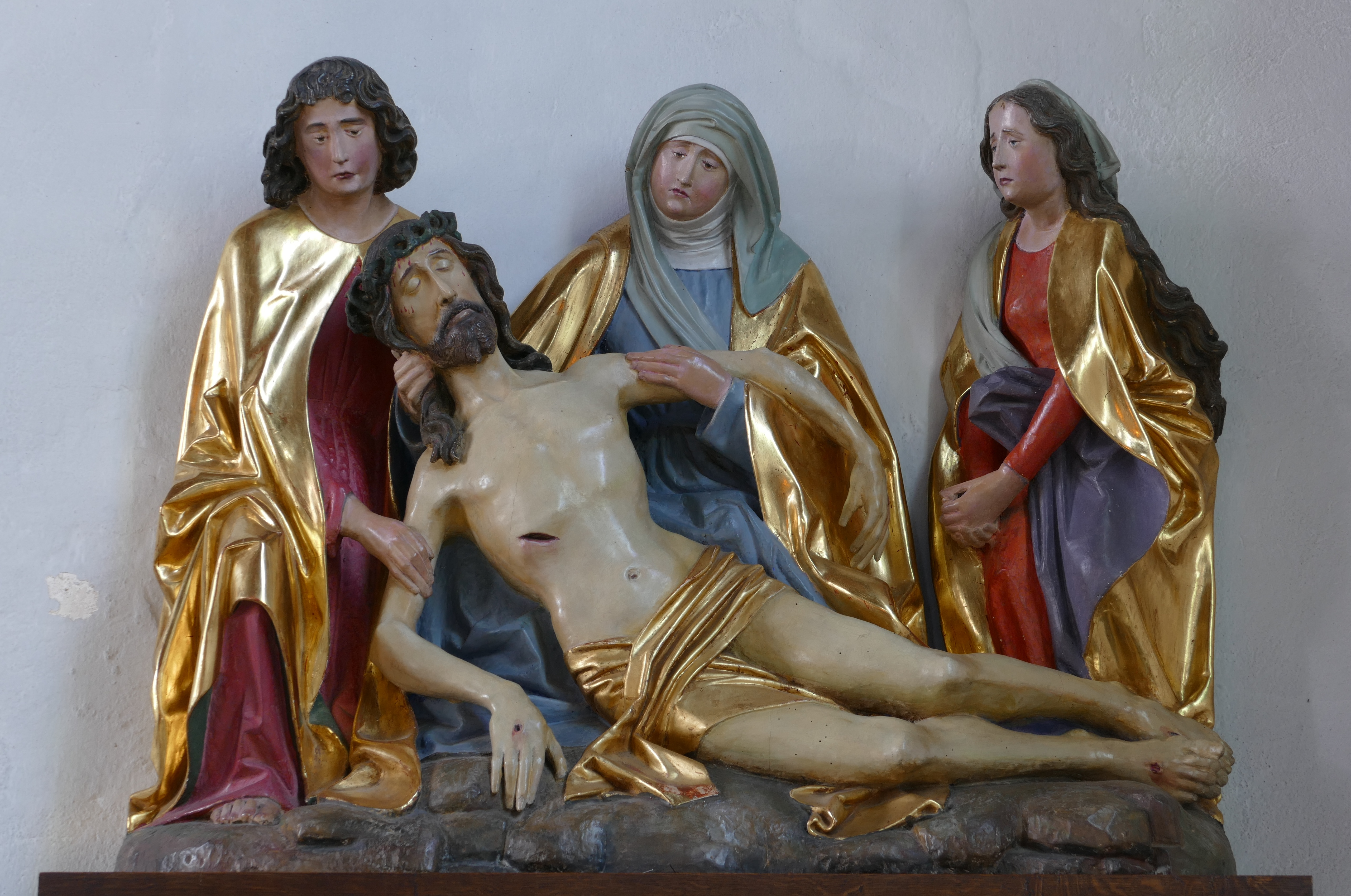 Alsace, Bas-Rhin, Bischoffsheim, Couvent de Bischenberg (PA00084622, IA00075456). Chapelle Notre-Dame-des Sept-Douleurs. Groupe sculpté "Déploration" (XVIe-XVIIe): This object is classé Monument Historique in the base Palissy, database of the French furniture patrimony of the French ministry of culture, under the references PM67000494 and IM67000934.